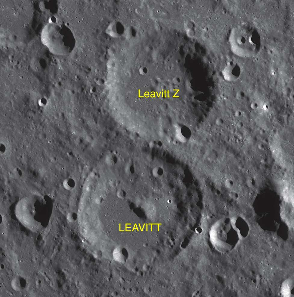 Part of the chart LAC-121 used for the presentation